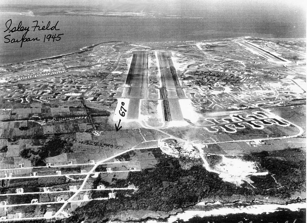 Isley Field, Saipan, 1945